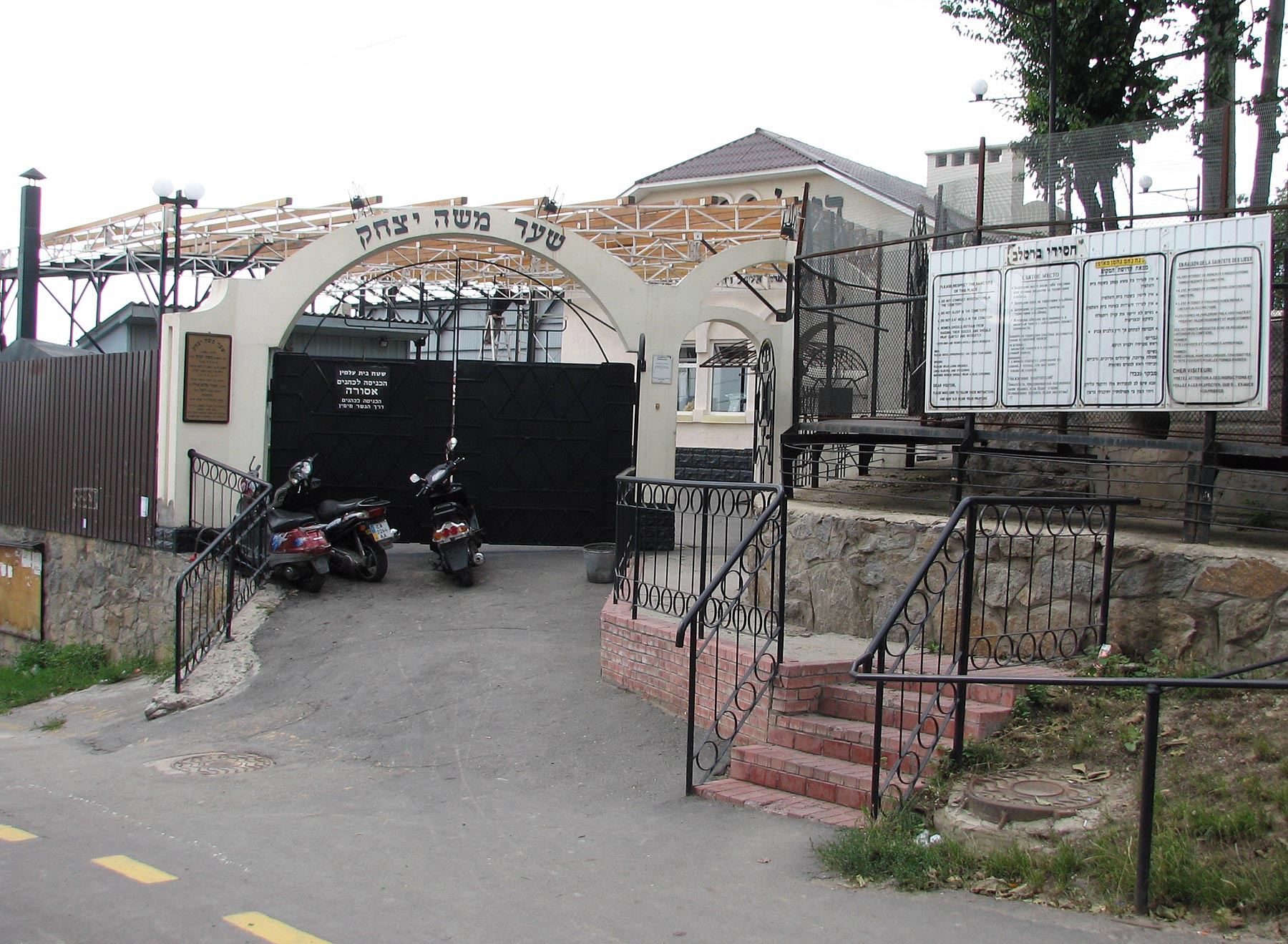 Entrance to rabbi Nachman's grave in Uman, Ukraine